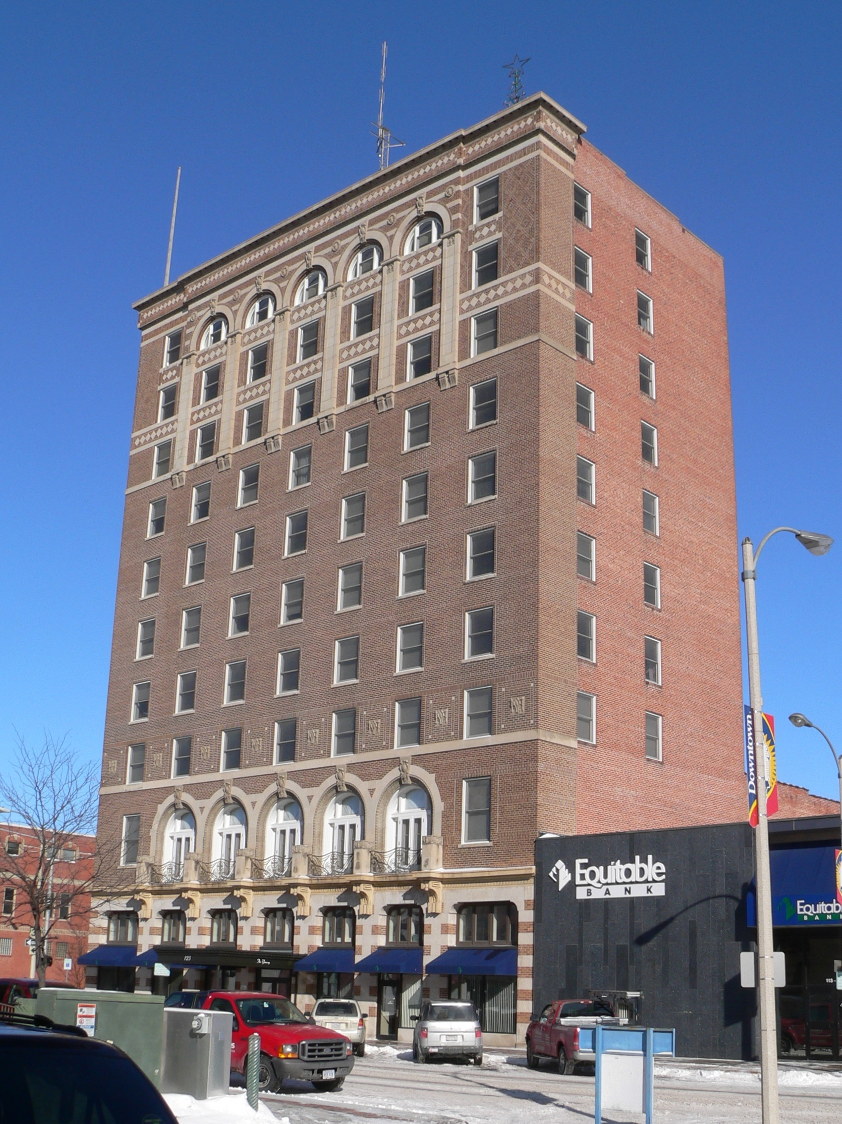 Hotel Yancey at 123 N. Locust St., Grand Island, Nebraska; seen from the northwest. Construction on the building began in 1917. It is listed in the National Register of Historic Places.